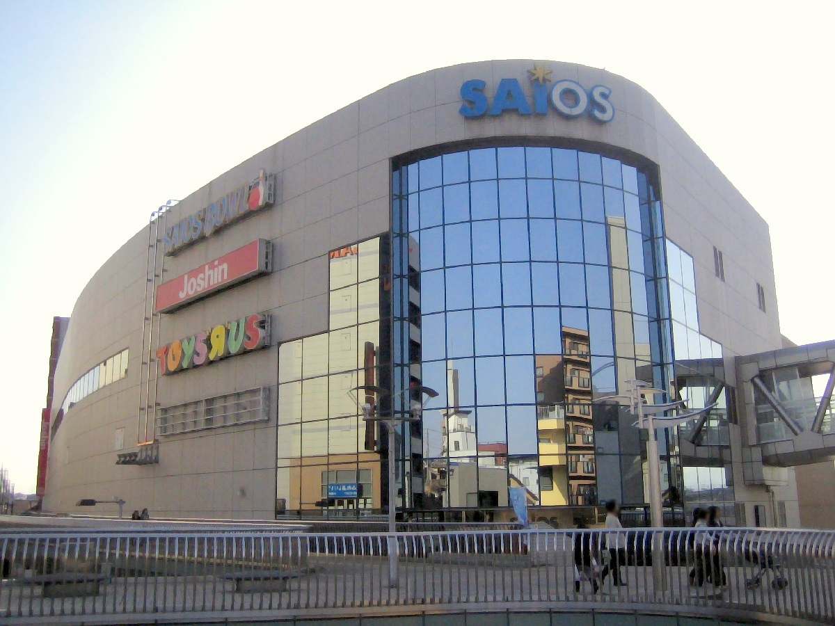 SAIOS.